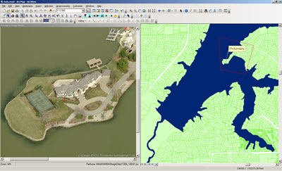 Example of Pictometry technology